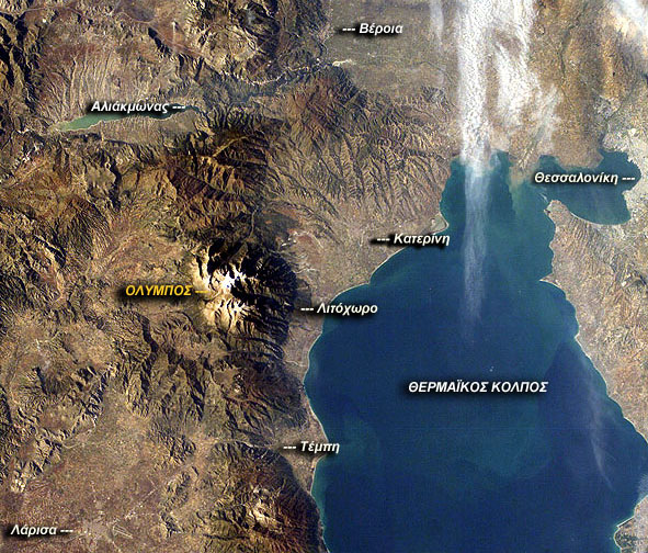 View of Mount Olympus, Greece